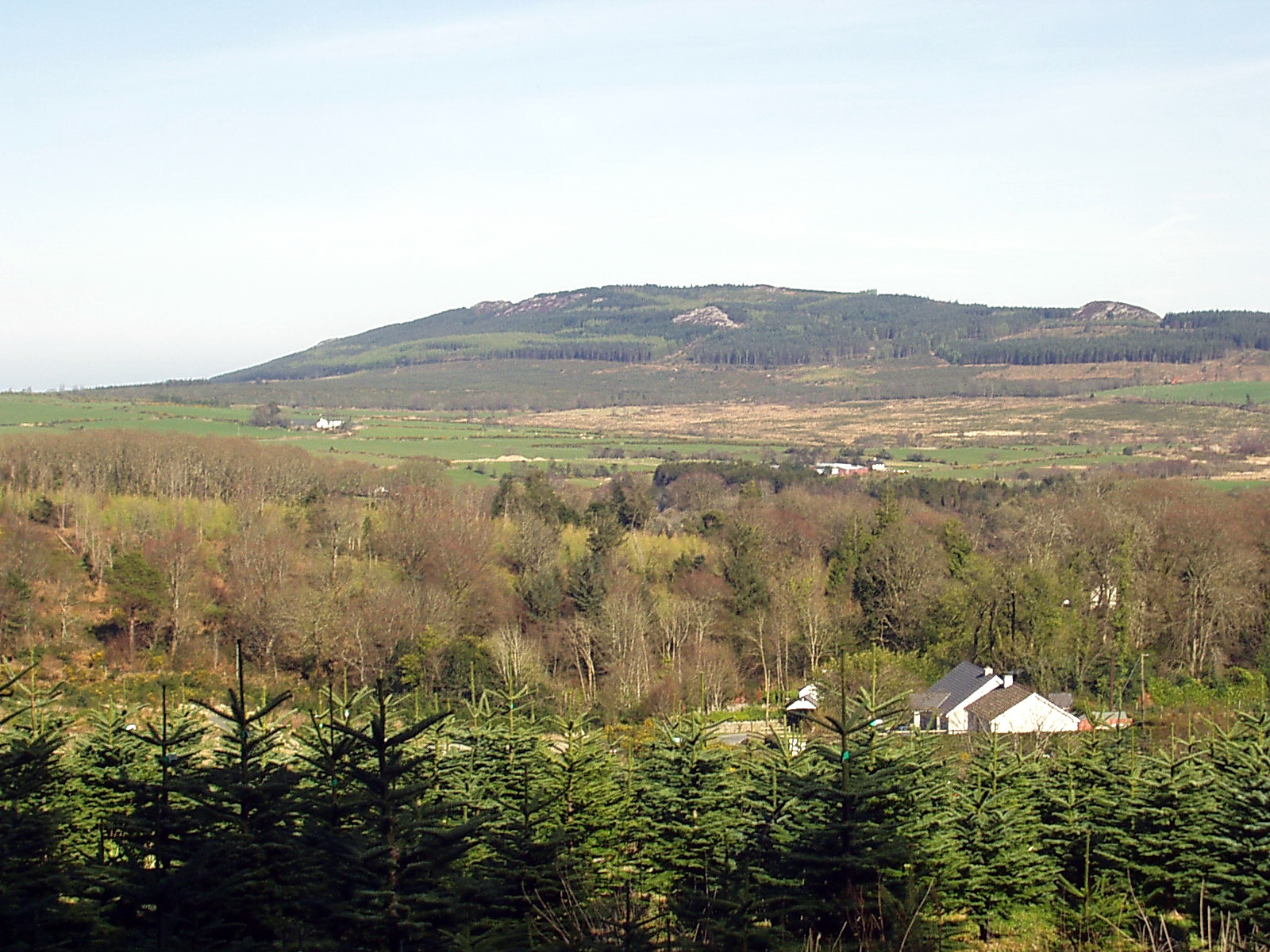 Carrick Mountain, near Glenealy, County Wicklow, Ireland. Viewed from 4 km southwest of the summit.